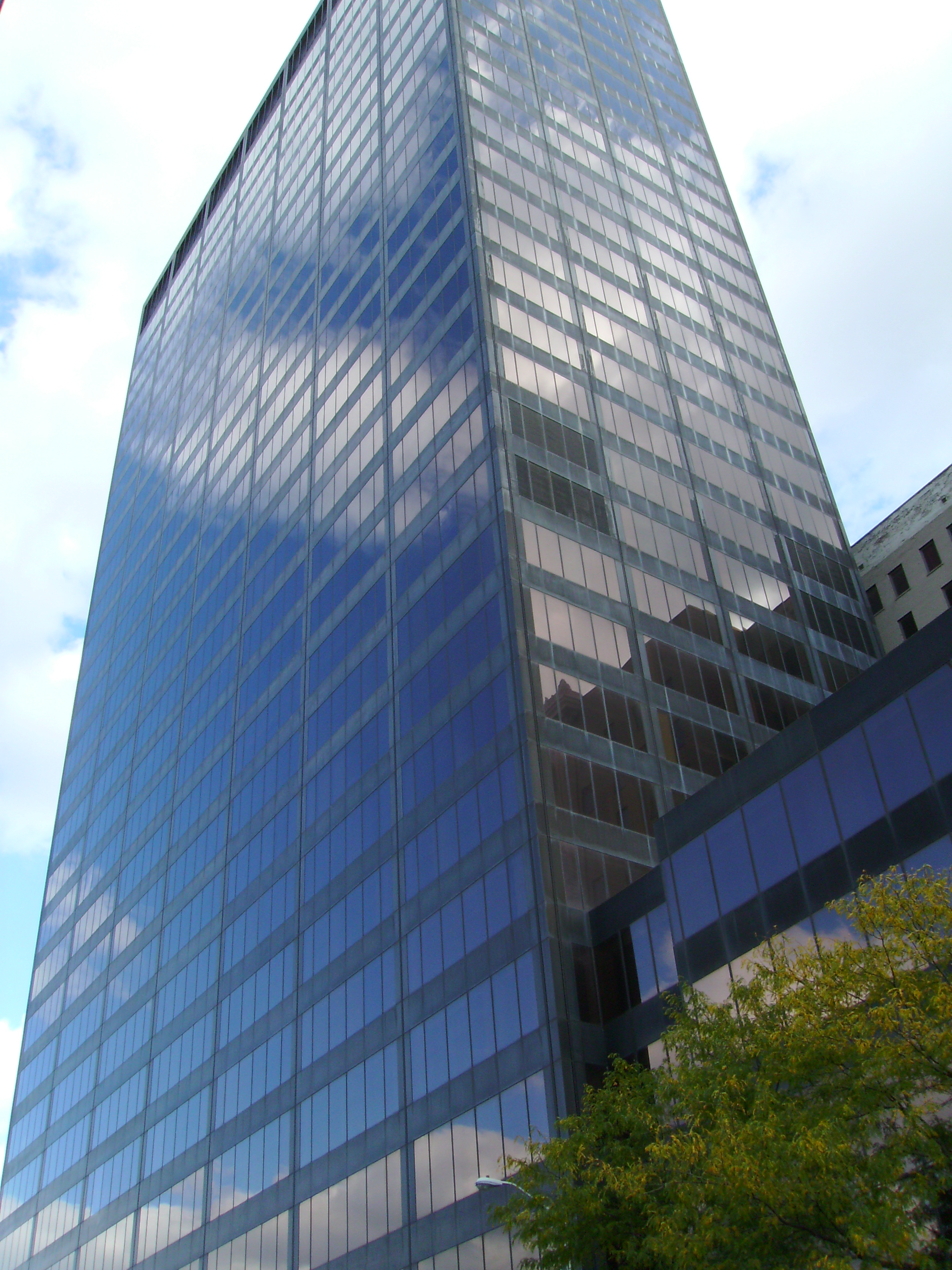 Kettering Tower office building in downtown Dayton, Ohio.